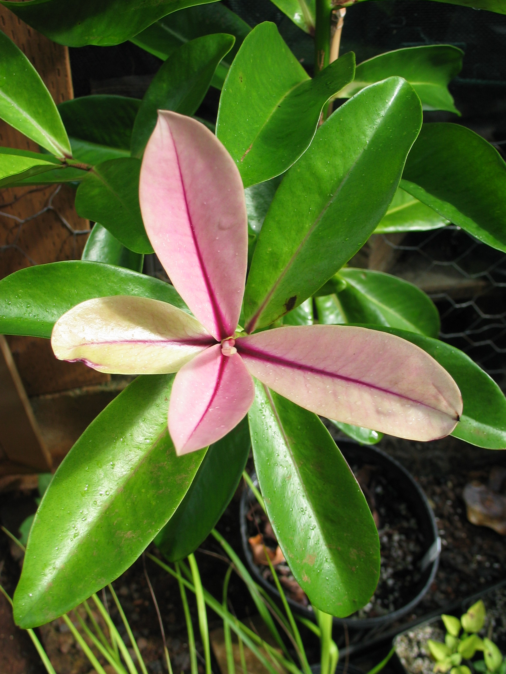 Kōlea lau nui Primulaceae Endemic to the Hawaiian Islands Oʻahu (Cultivated) Early Hawaiians used the strong wood for posts, gunwales for canoes, and beams in hale construction as well as to make anvils for beating kapa (tapa). The pinkish bark produces a red sap was used to make red dye and the wood charcoal to make black dye. The bark, leaves, and flowers of kōlea (Mysine spp.) were used medicinally to treat pāʻaoʻao (childhood disease, with physical weakening) and ʻea (thrush). NPH00001